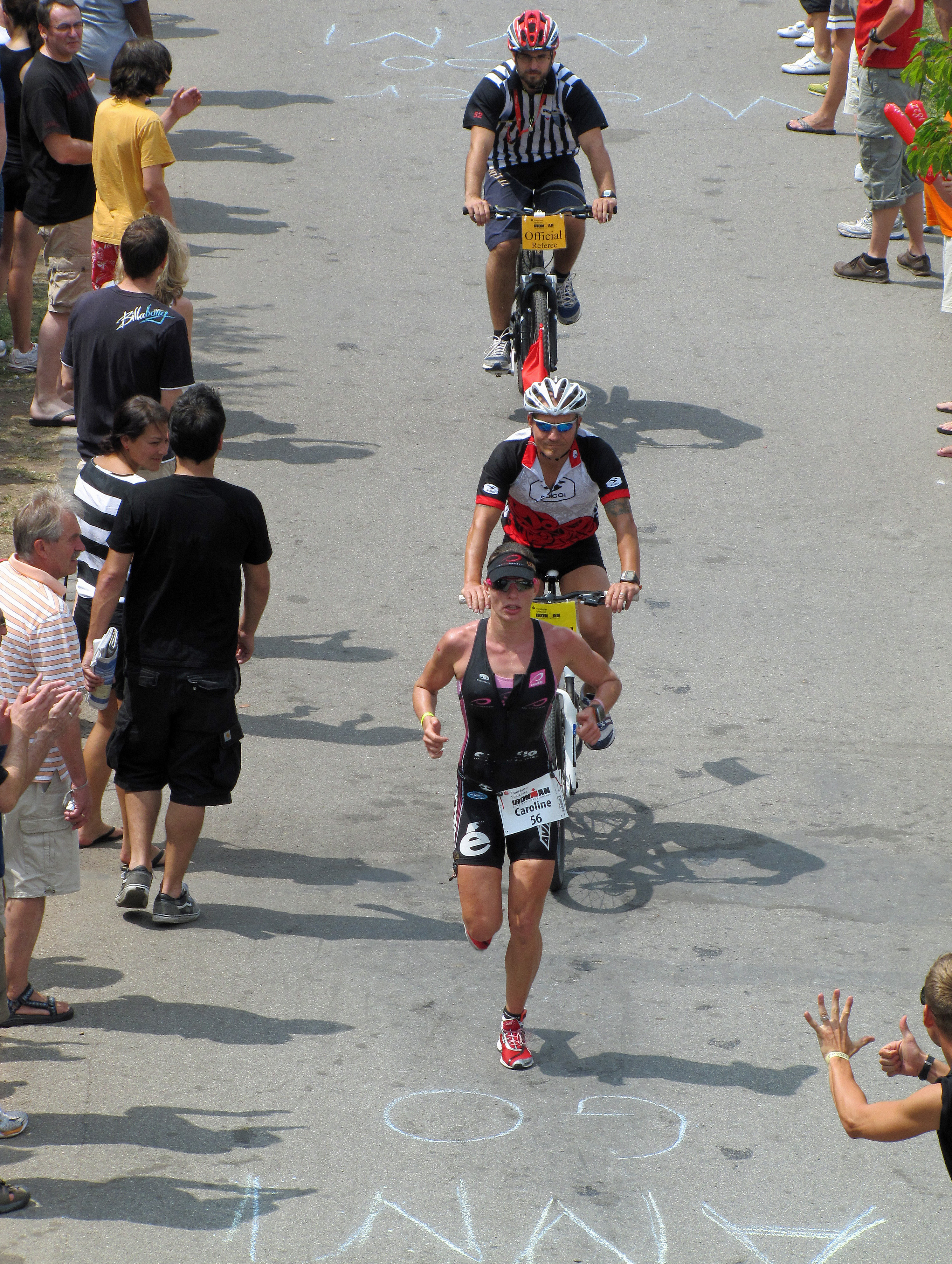 Caroline Steffen, 2010, Ironman Germany in Frankfurt am Main.